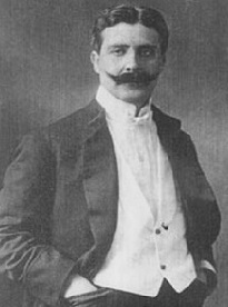 Behaeddin Shakir or Bahaeddin Shakir (Ottoman Turkish: بهاءالدین شاکر, Modern Turkish: Bahattin Şakir; 1874, Constantinople – April 17, 1922) was an Ottoman politician. He was a founding member of the Committee of Union and Progress (CUP). At the end of World War I, he was detained with other members of the CUP, first by the local Ottoman court martial and then by the British government. He was then sent to Malta pending military trials for crimes against humanity, which never materialized, and was subsequently exchanged by the British for hostages held by Turkish forces. (Cropped image)